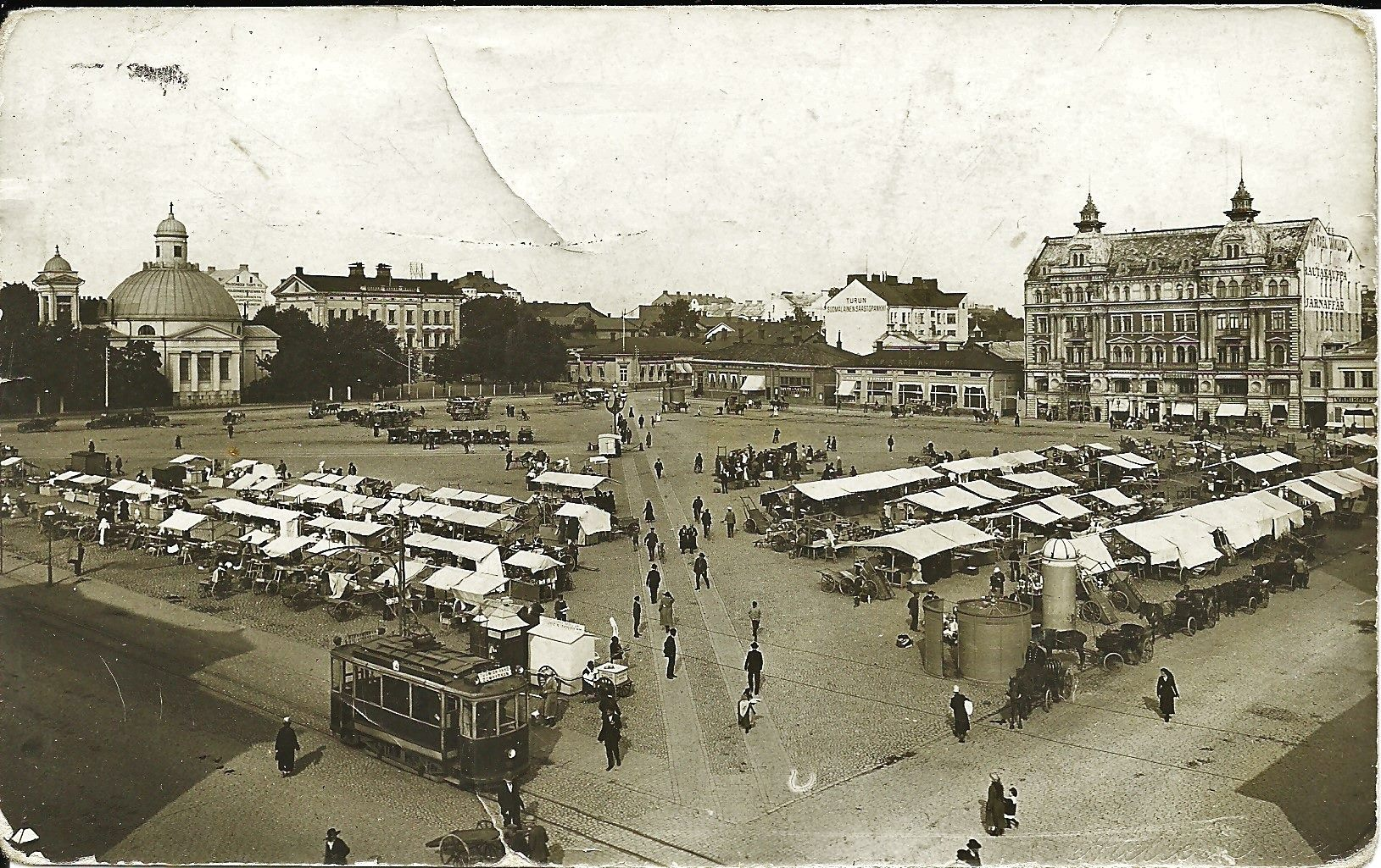 Turku Market Square in early 1900s.